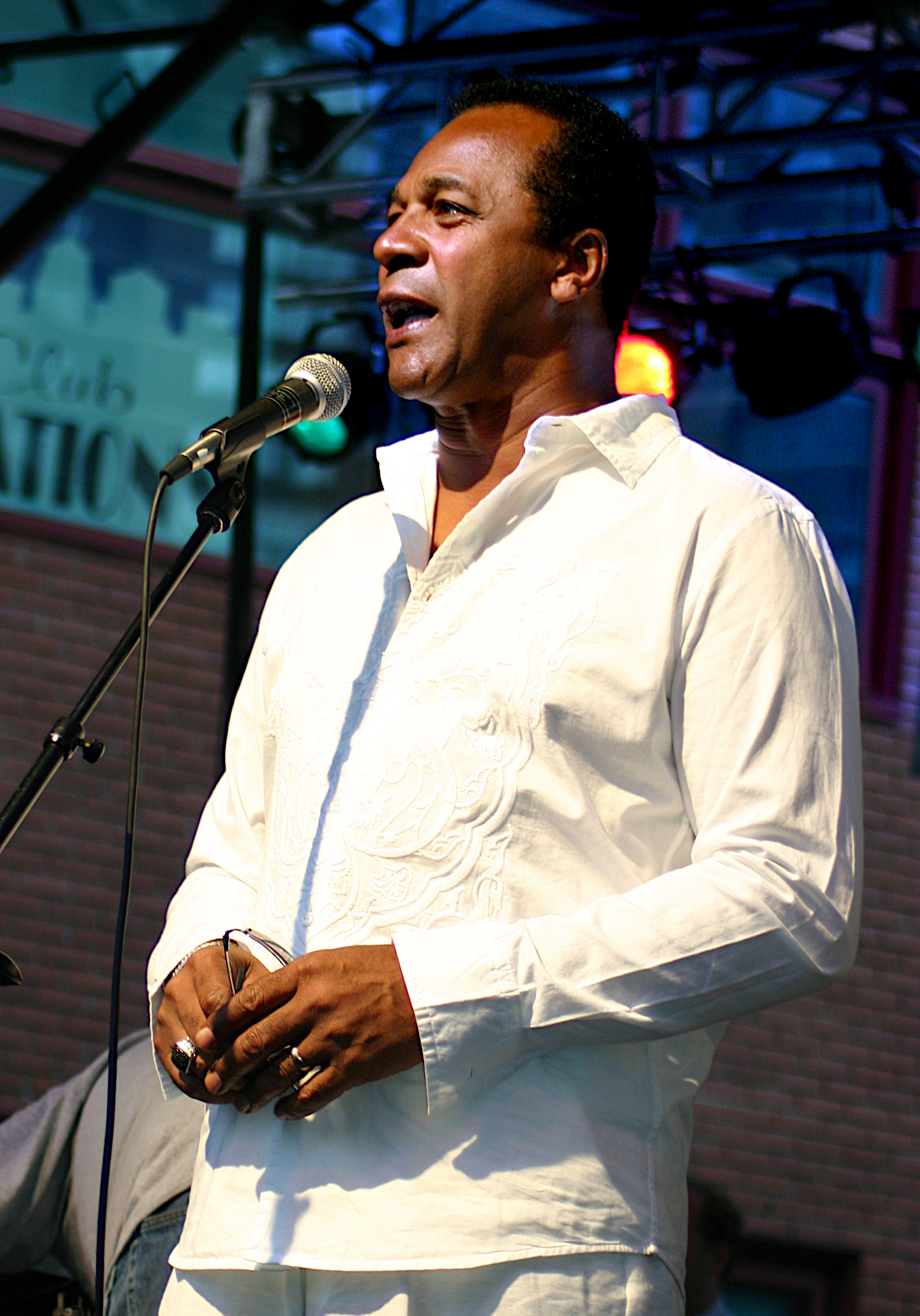 Clifton Davis